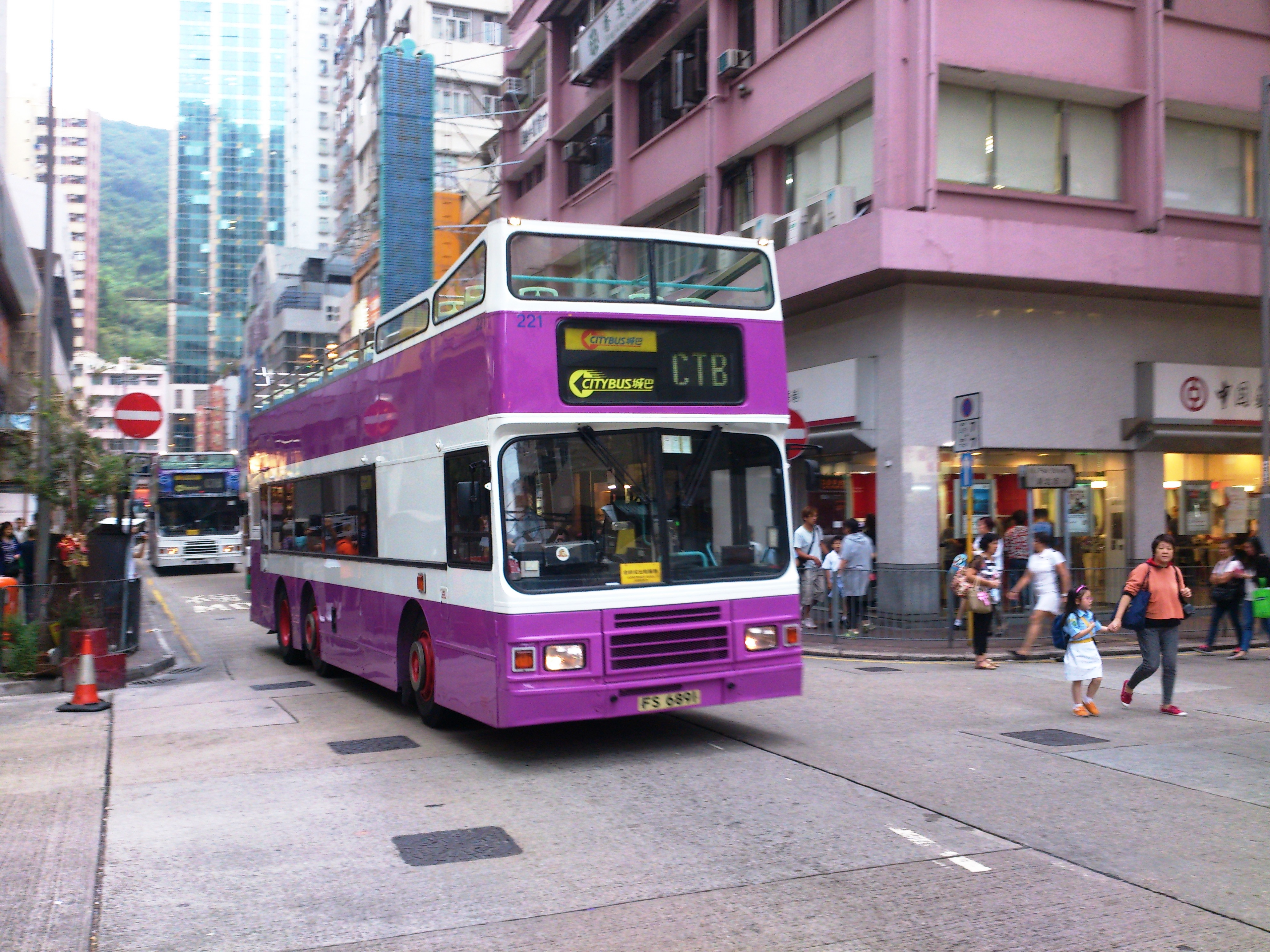 Citybus 221 on Chengtu Road